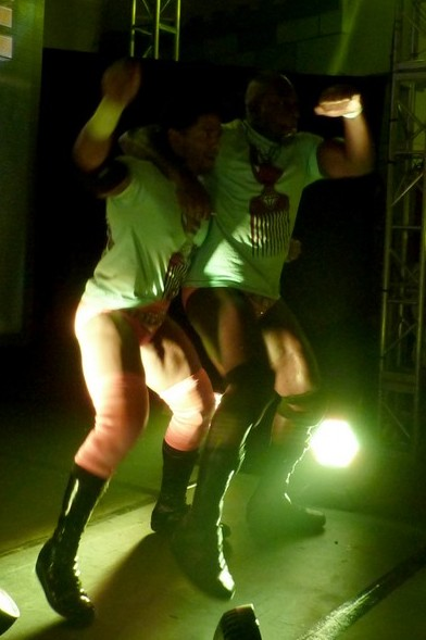 The Prime Time Players (Darren Young, left, and Titus O'Neil, right) at a WWE show in Minehead on November 16, 2013. Cropped from original.